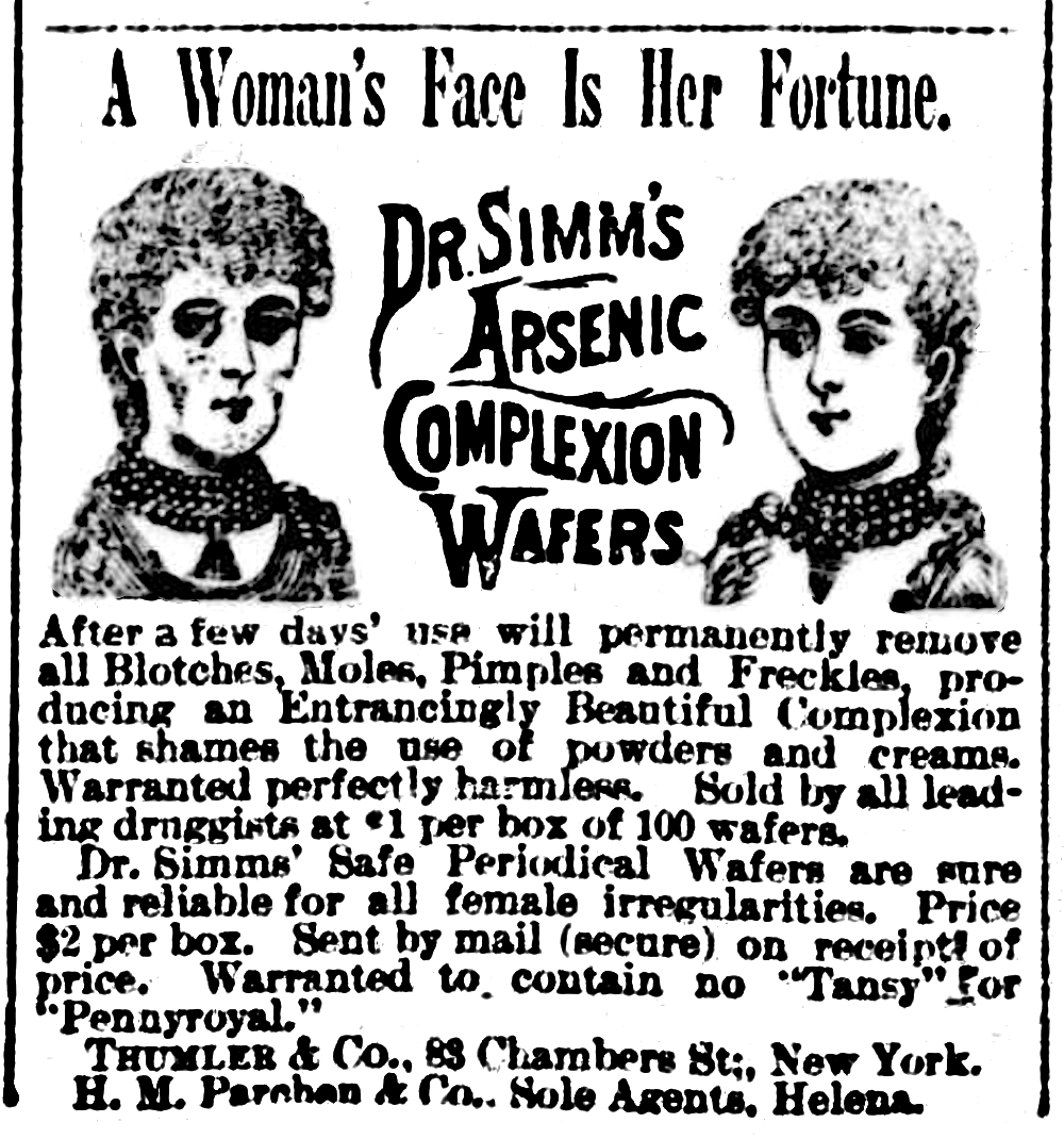 November 9, 1889 newspaper advertisement for "Arsenic Complexion Wafers" in The Helena Independent newspaper, Helena, Montana, U.S.